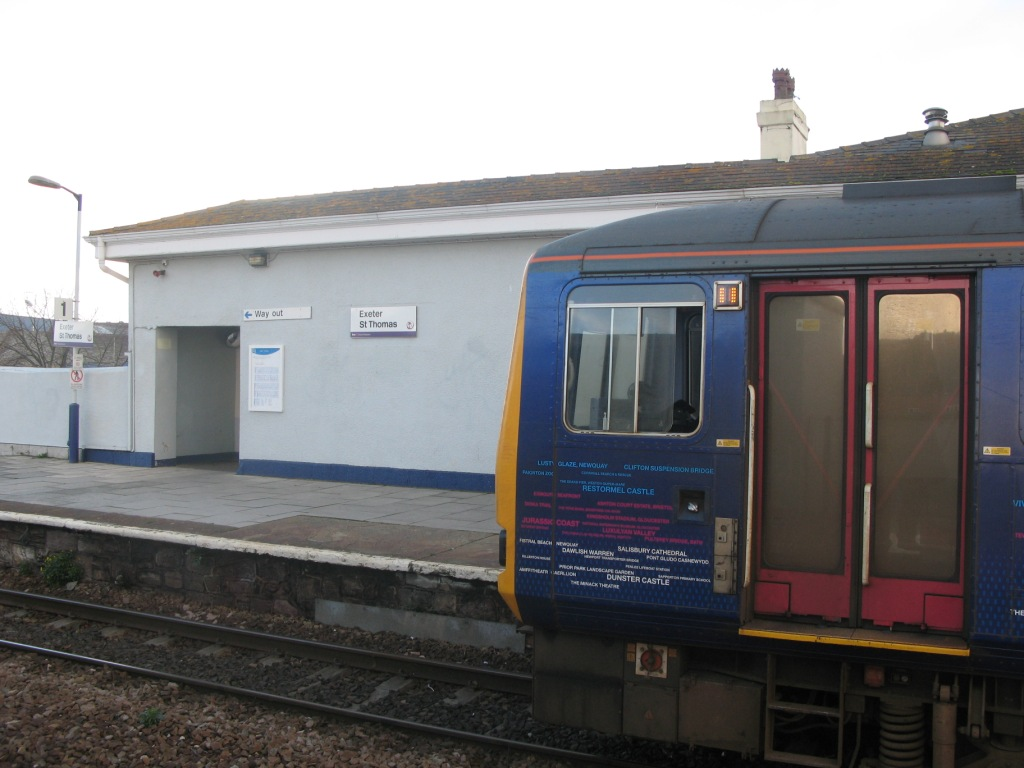 143603 calls at St Thomas station, Exeter, Devon, England, with a Riviera Line service from Exmouth to Paignton.